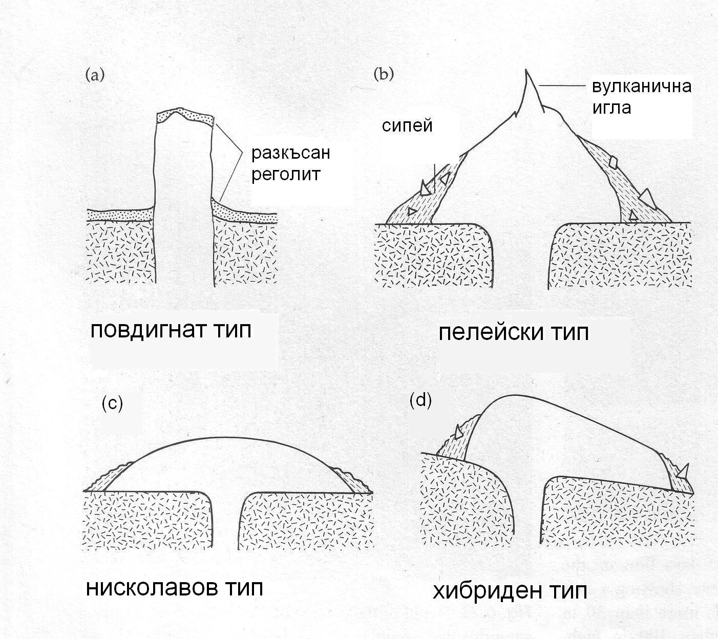 Scheme of different types of lava dome